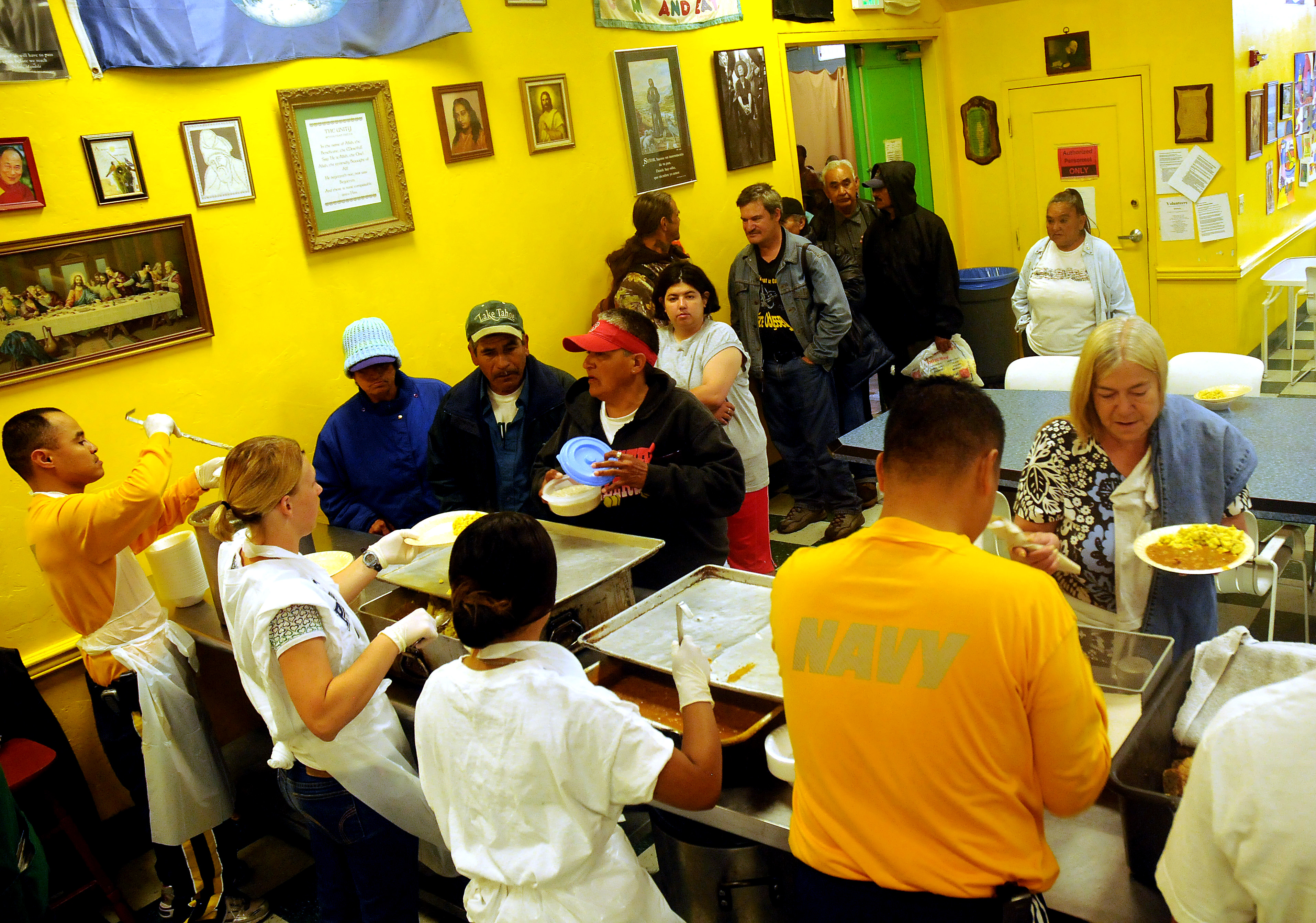 SALINAS, Calif. (Aug. 6, 2009) Sailors and Navy Delayed Entry Program members serve breakfast to homeless men and women at Dorothy's Soup Kitchen in Salinas, Calif. during Salinas Navy Week community service event. Salinas Navy Week is one of 21 Navy Weeks planned across America in 2009. Navy Weeks are designed to show Americans the investment they have made in their Navy and increase awareness in cities that do not have a significant Navy presence. (U.S. Navy photo by Chief Mass Communication Specialist Steve Johnson/Released)